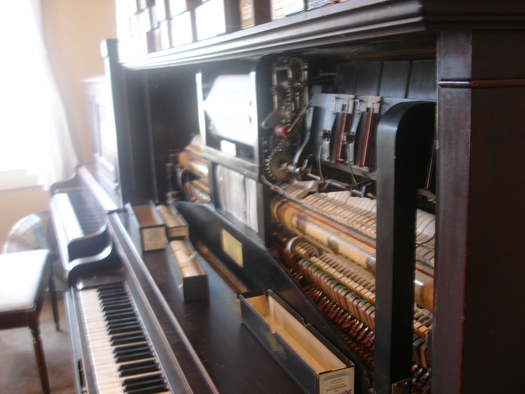 A player piano